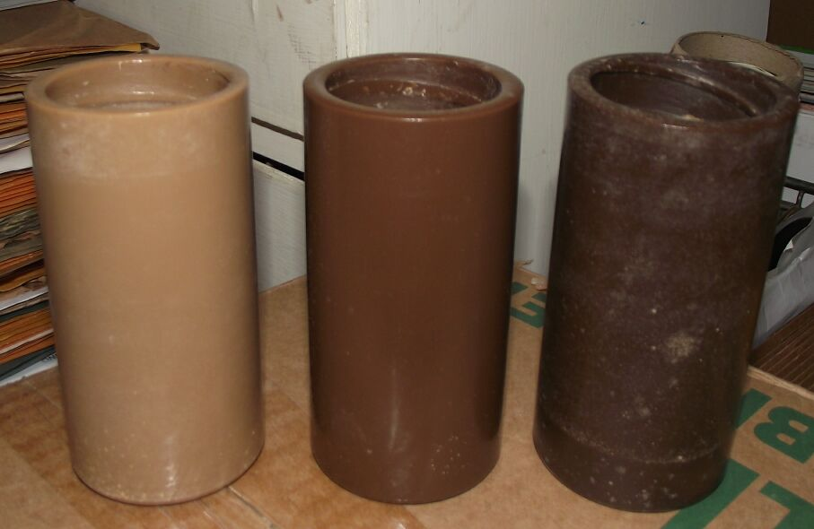 Shades of brown wax phonograph cylinders. Cylinders shown are "Marching Through Cuba" by Dan W. Quinn (Columbia 5317); "Farmyard Medley" by the Greater New York Quartette (Columbia 9037); and a home recording of what appears to be a German gentleman practicing the English language. Picture taken to demonstrate color variations of brown-wax phonograph cylinders.